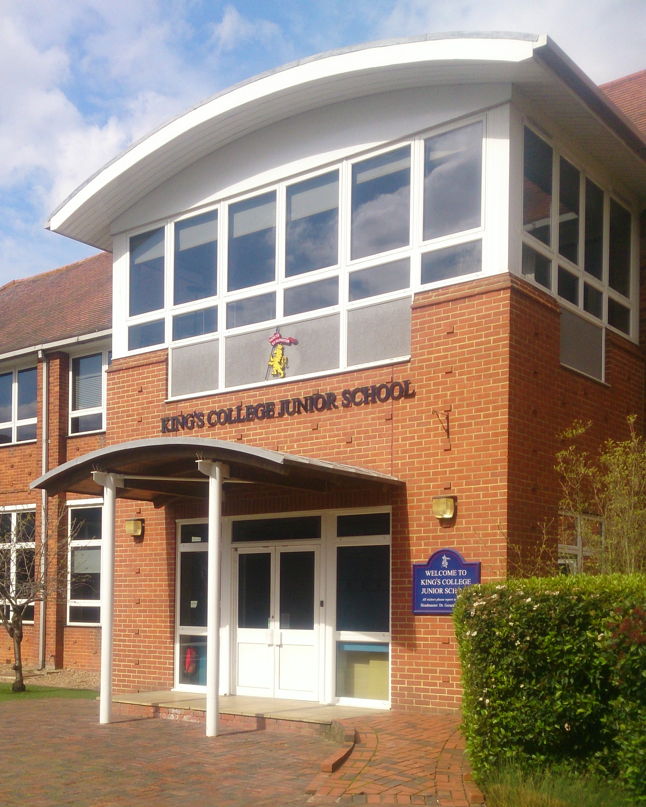 Junior School entrance